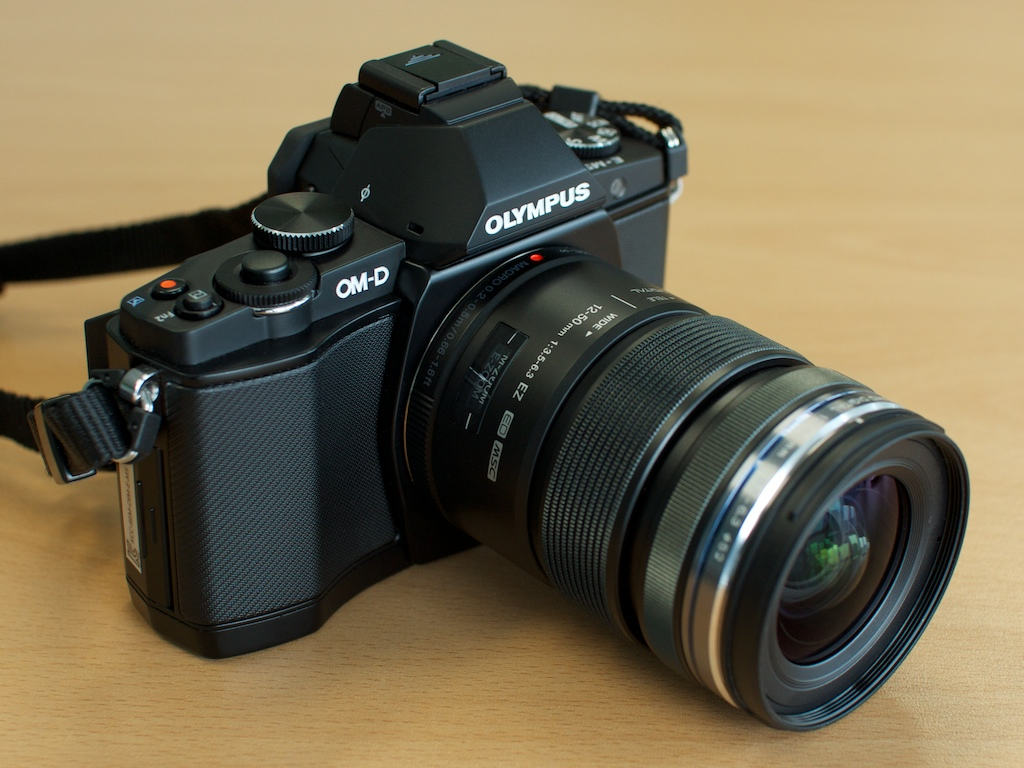 The Olympus OM-D E-M5 camera with the 12-50 mm kit lens.